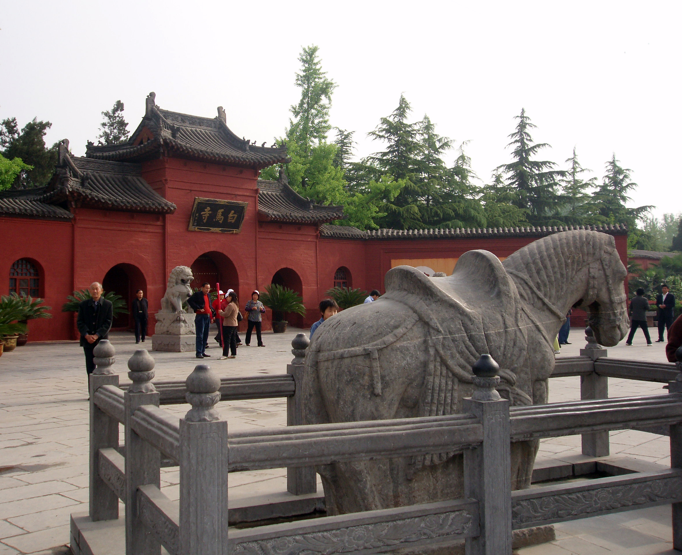 The shanmen at White Horse Temple, in Luoyang, Henan, China.